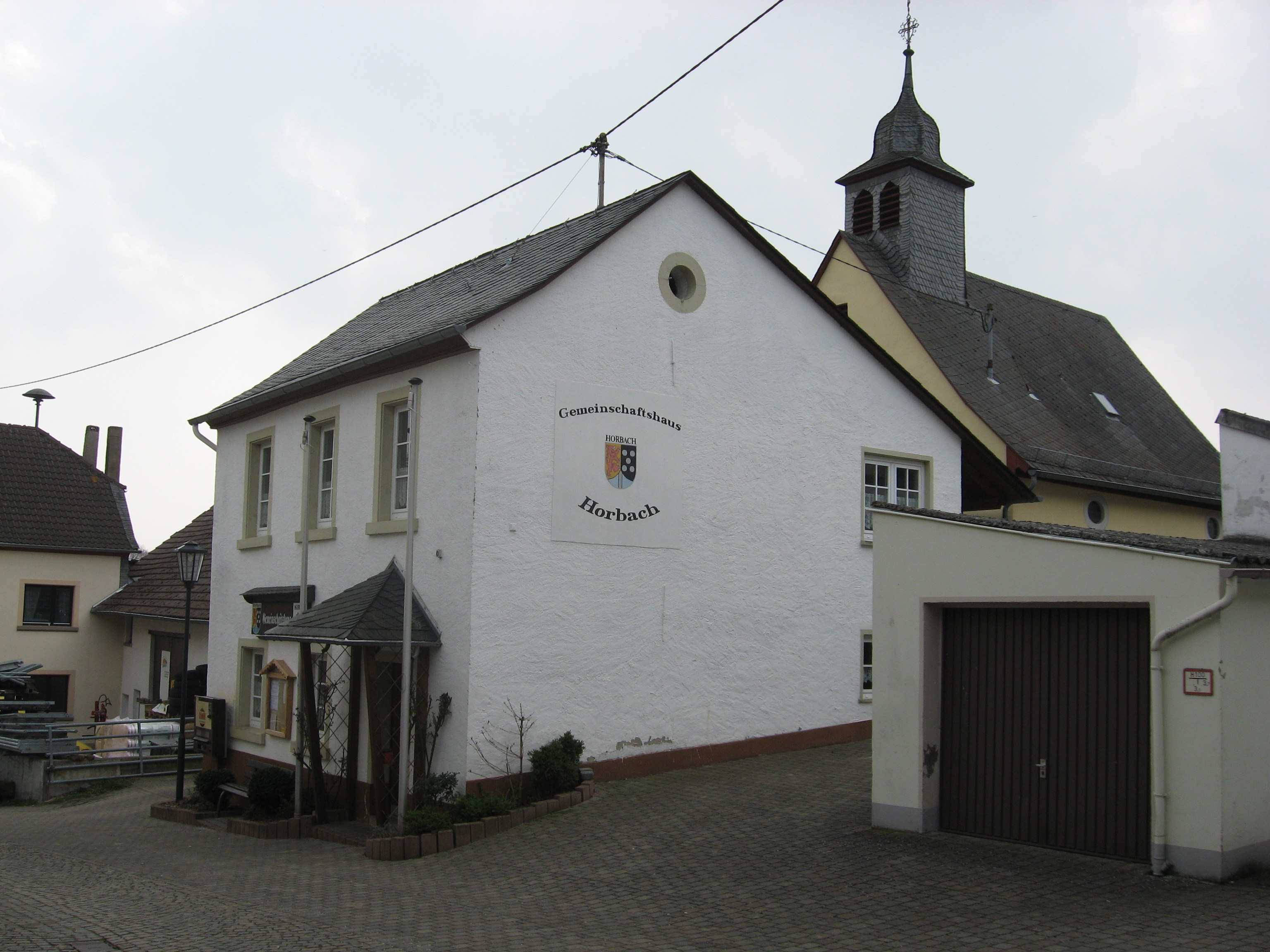 Village Horbach in the Hunsrück landscape, Germany.